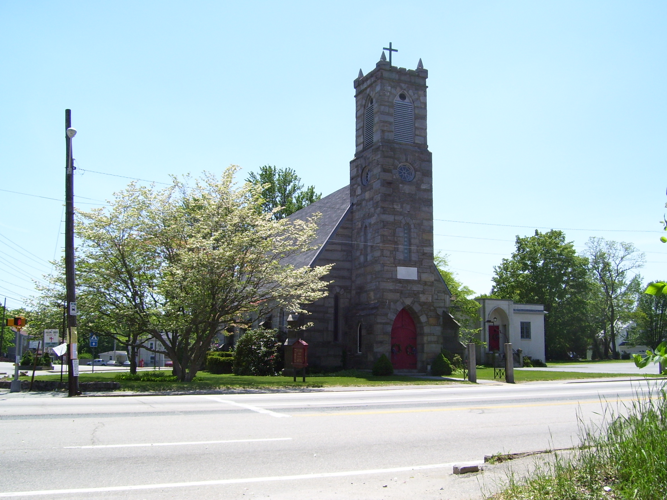 My 2008 photo of Saint Thomas Episcopal Church in Greenville Rhode Island (Smithfield).